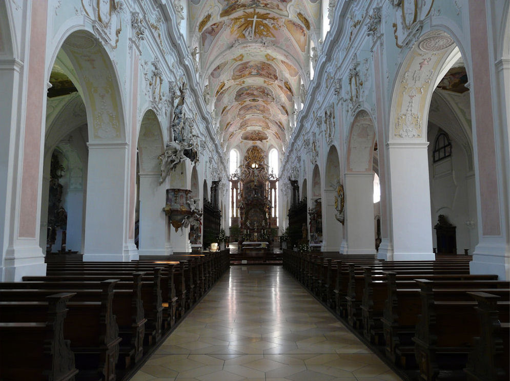 Former Abbey of Ochsenhausen, Germany (now parish church)